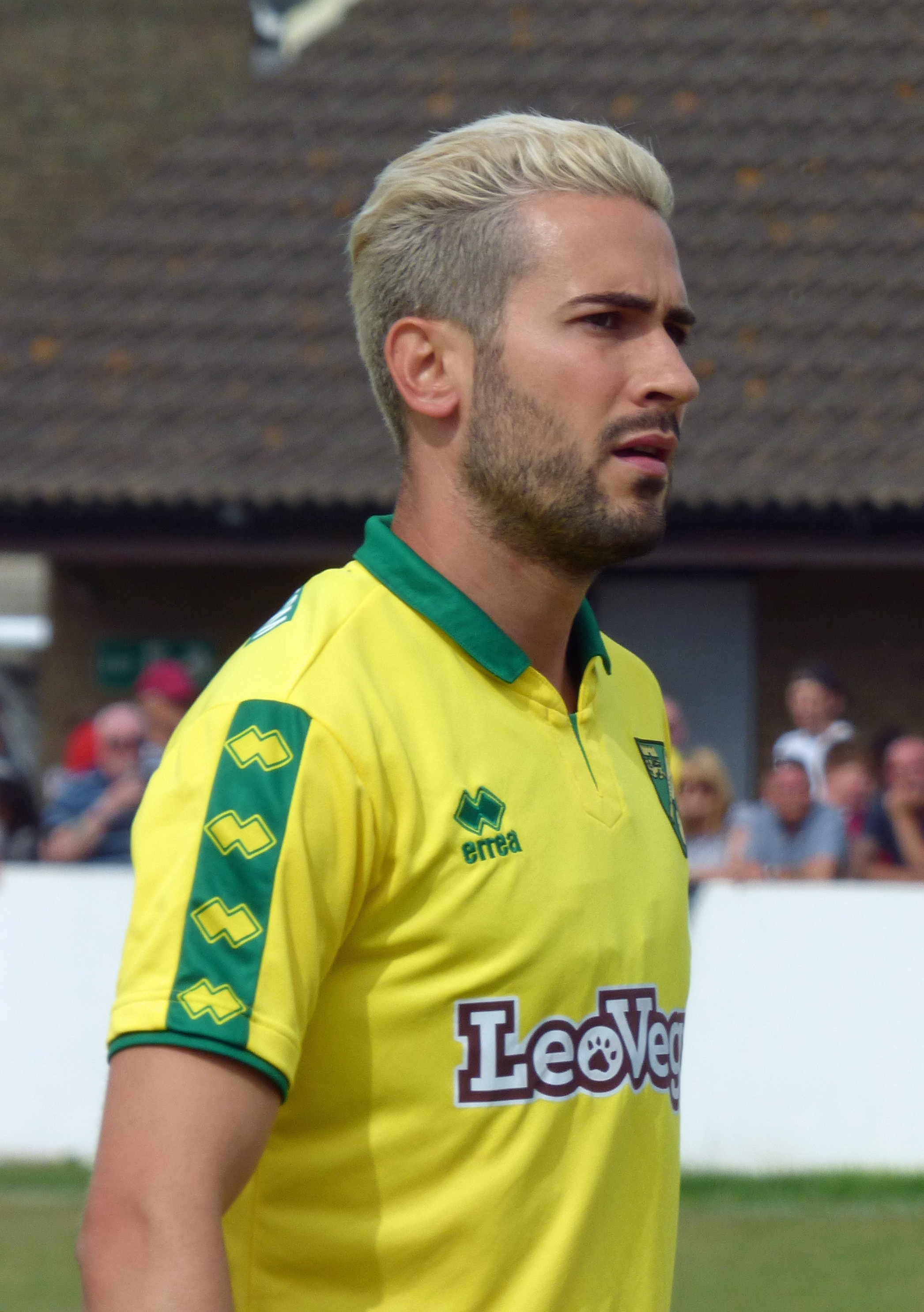 Mario Vrancic playing for Norwich City against Lowestoft Town